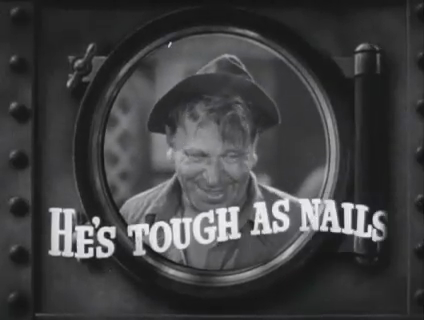 Wallace Beery in the film Barnacle Bill (1941), directed by Richard Thorpe.